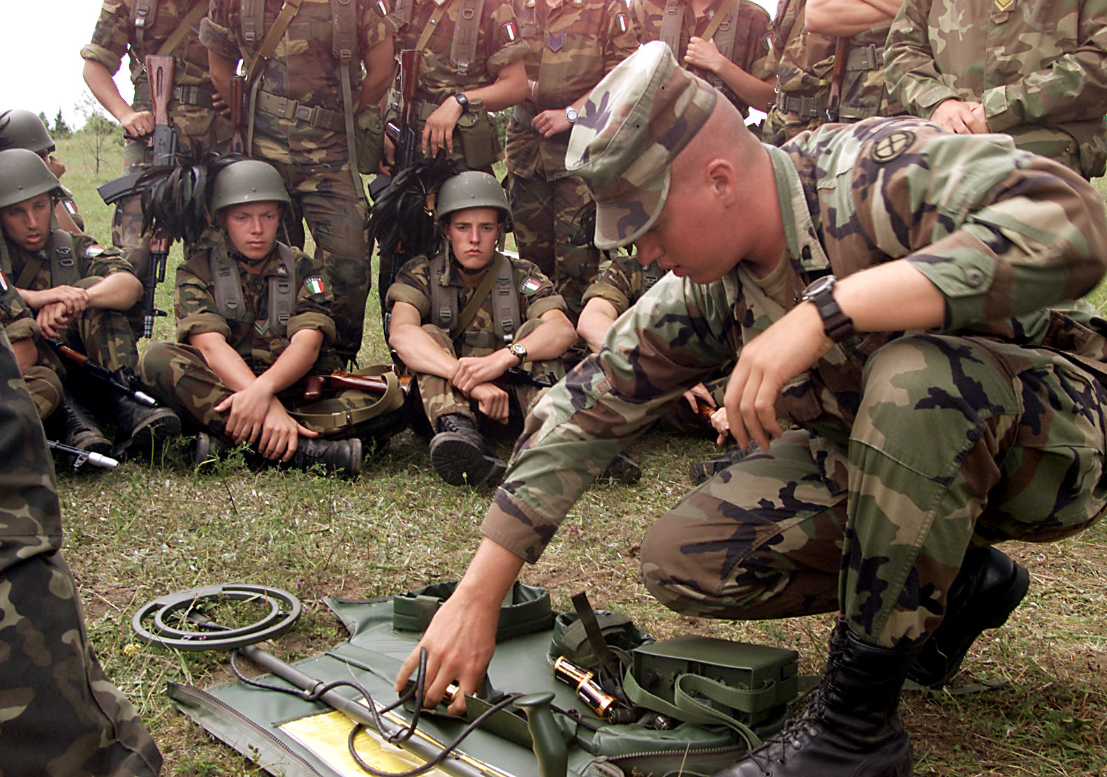 U.S. Army National Guard Spc. Kristopher Reynolds talks to Italian soldiers of the 3th Italian Regiment, Bersaglieri (Special Forces) about components of a U.S. mine detector during Exercise Peaceshield 2000 at Yavoriv, Ukraine, on July 13, 2000. Approximately 1000 soldiers from 22 countries are taking part in the peacekeeping training exercise at the Partnership for Peace Training Center at Yavoriv. Reynolds is attached to the 135th Engineering Battalion, Army National Guard, Lawrenceville, Ill.